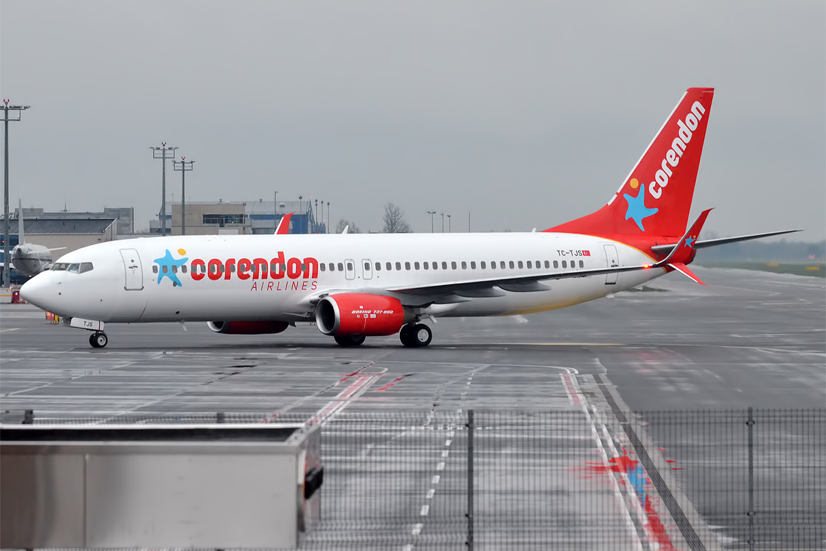 Corendon Airlines, TC-TJS, Boeing 737-81B